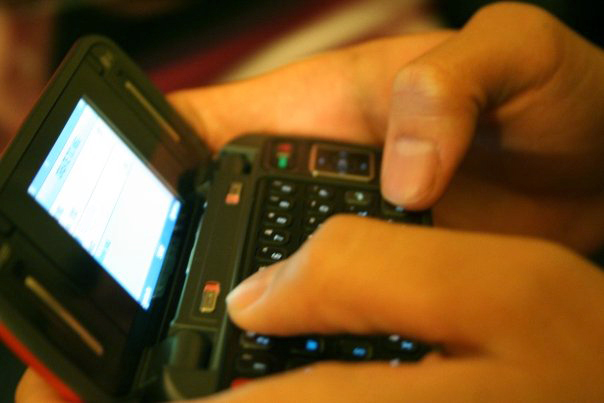 Texting on a qwerty keypad phone